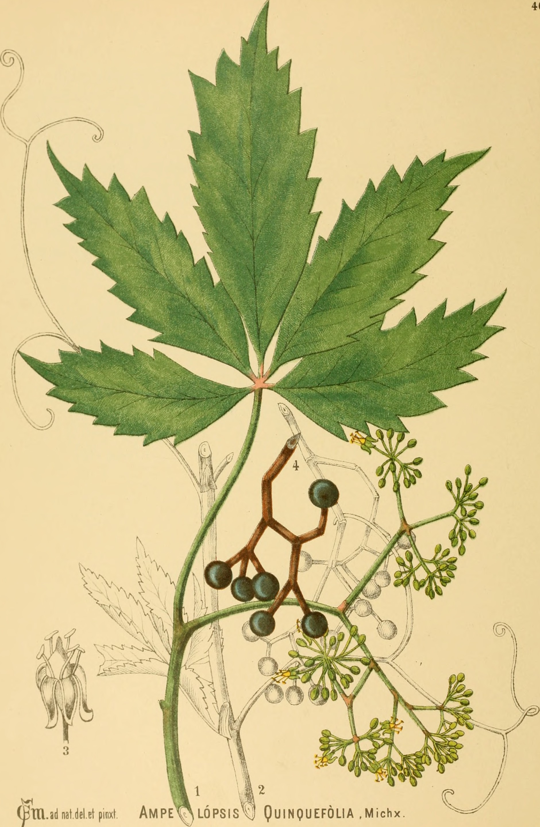 Title: American medicinal plants; : an illustrated and descriptive guide to the American plants used as homopathic remedies : their history, preparation, chemistry, and physiological effects. Year: 1887 (1880s) Authors: Millspaugh, Charles Frederick, 1854-1923 Subjects: Botany, Medical; Botany; Botany; Botany Publisher: New York ; Philadelphia : Boericke & Tafel. Text Appearing Before Image: ' Text Appearing After Image: 40. r\^ (Bm.jd nat.del.et pinxt. AM QUINQUEFOUA .Michx.